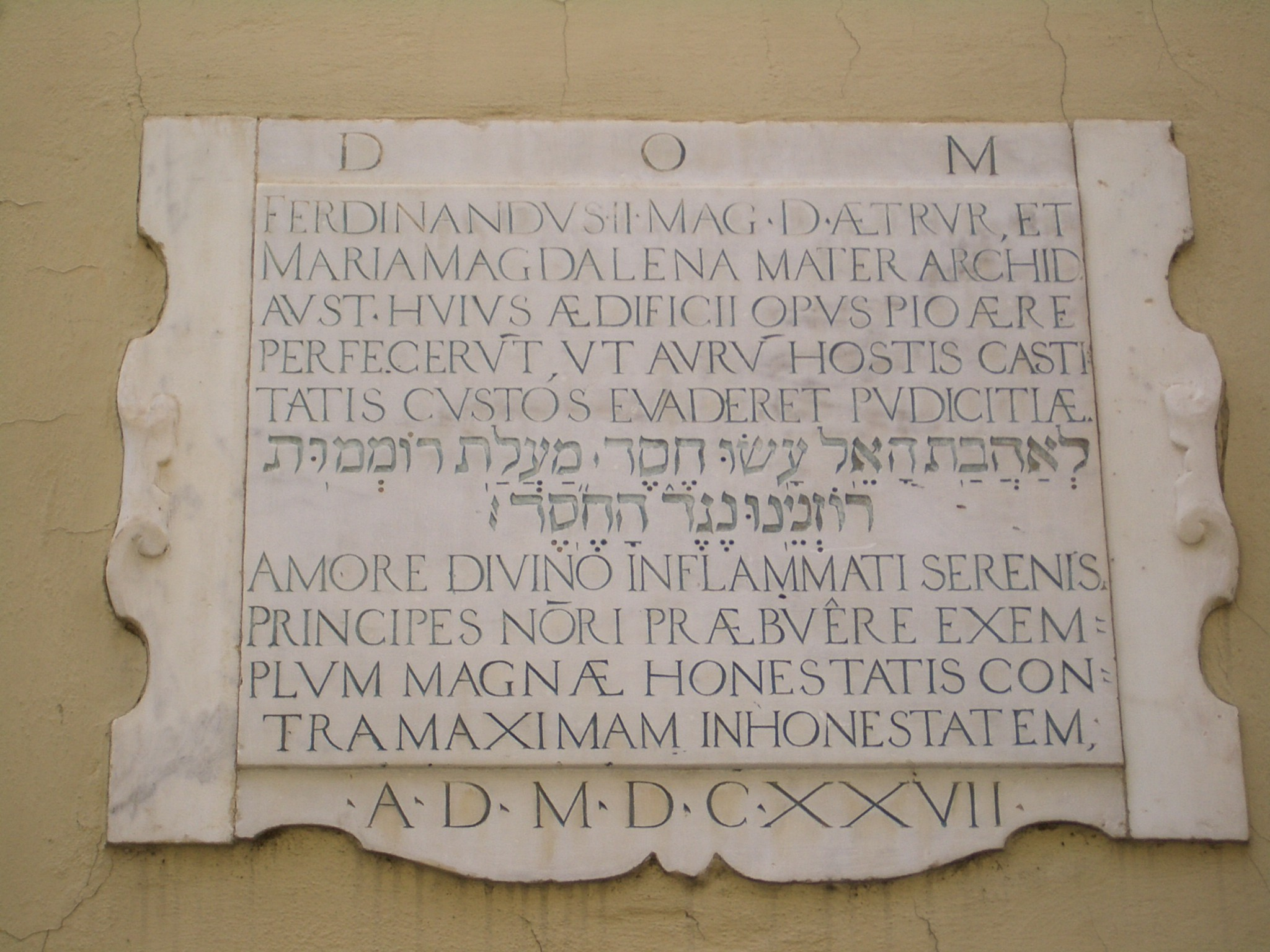 A plaque on the Istituto S.Salvatore building in Florence. Suggested translation: Latin: "Ferdinando II de' Medici, the Grand Duke of Tuscany, and Maria Magdalena the mother of the Grand Duke, have completed the pious work of [constructing] this building, so that the guardians of chastity can evade the golden enemy with modesty". Hebrew: "They acted in kindness for the love of God, the ascension of supremacy of our rulers against kindness." Latin: "Inflamed with divine love, our rulers have offered an example of great honorableness against the greatest dishonor. AD 1627." Experts on Florentine history and/or Latin and Hebrew are invited to provide a better description.